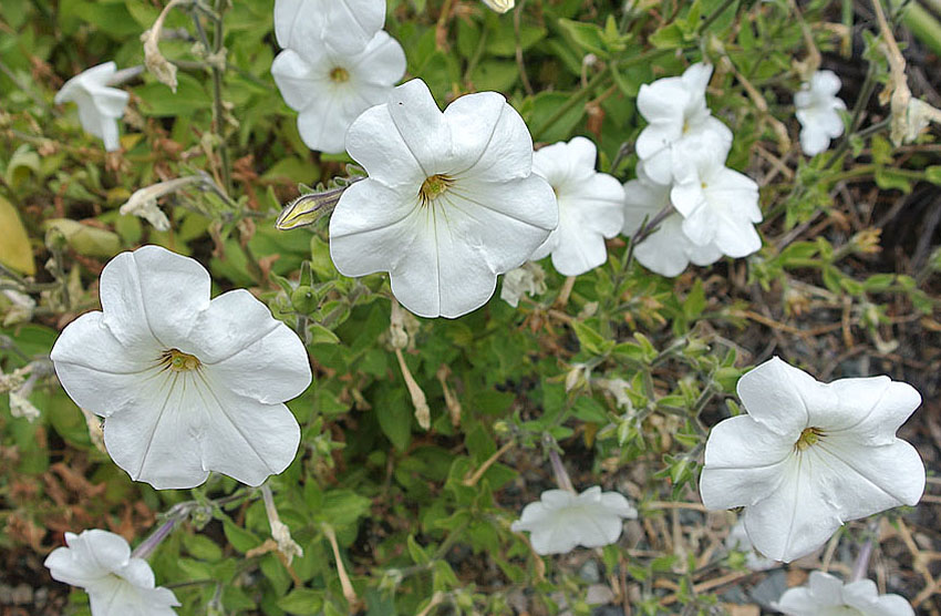 Native to Paraguay, Uruguay and northern Argentina. Now a widespread garden item. UC Berkeley Botanical Gardens.